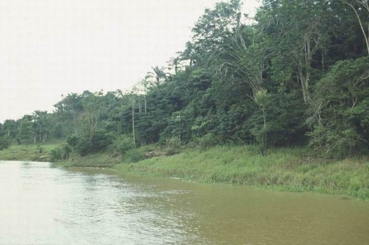 Amazon River created by he:משתמש:בן הטבע